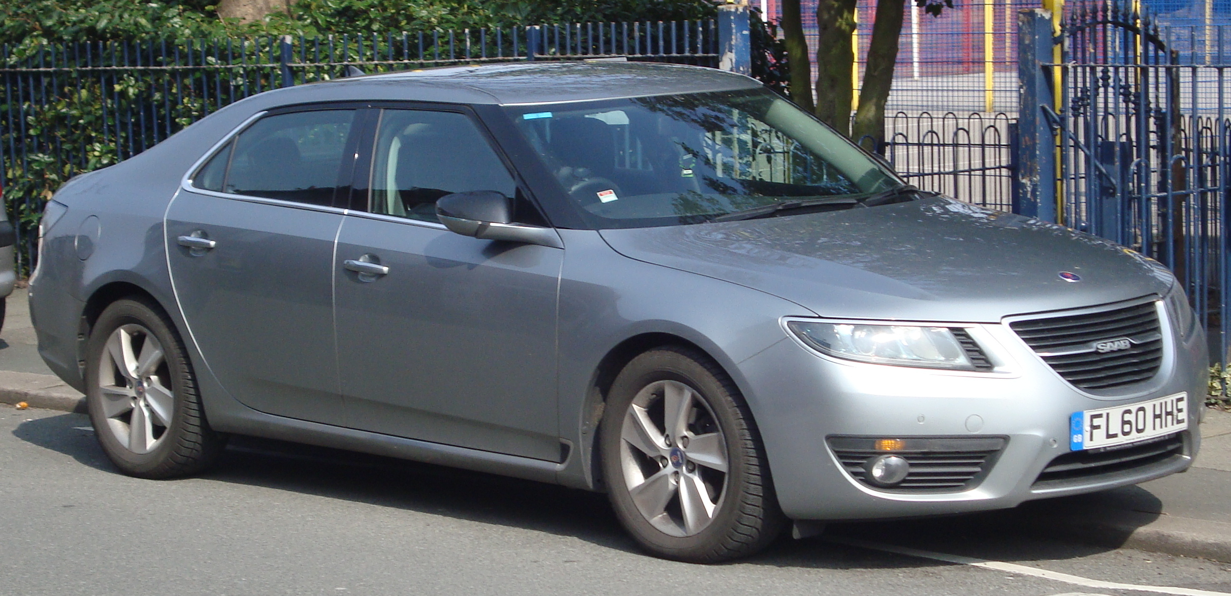 Sadly don't see a lot of these late 9-5's around which is a shame because like most Saab's I really like themthem